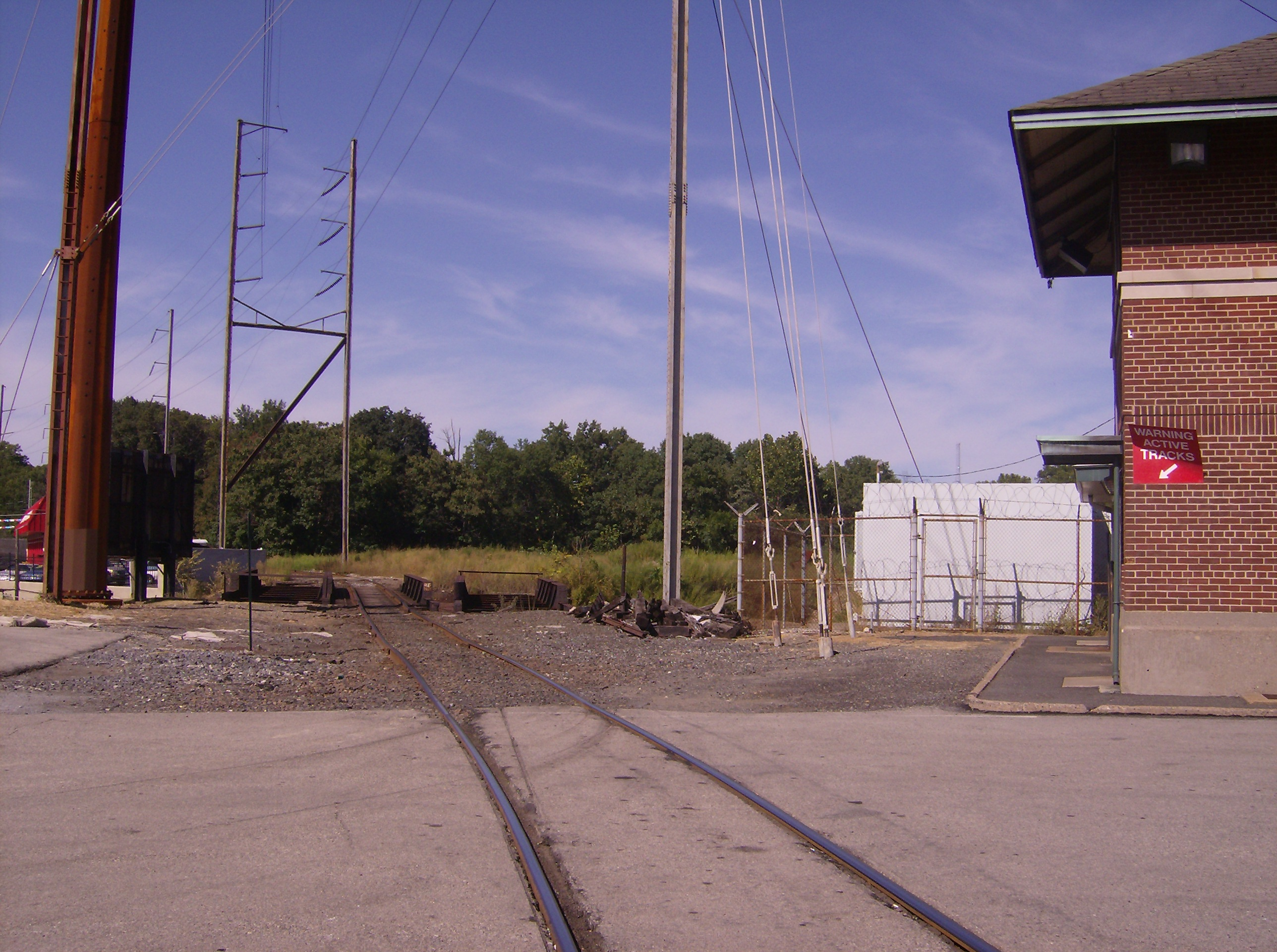 The Pennsylvania Railroad Bustleton Branch, originally built by the Frankford and Holmesburg Railroad at Holmesburg Junction (SEPTA station) in Northeast Philadelphia.